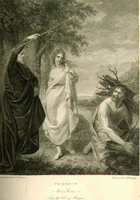 Print of William Peters' Near the Cell of Prospero